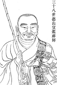 Portrait of chan master Deshan Xuanjian